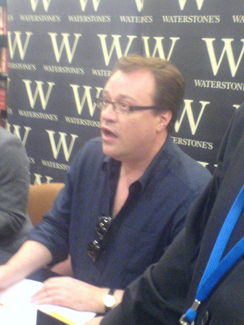 Russell T Davies at a book signing in Waterstones, Trafford Centre, Manchester